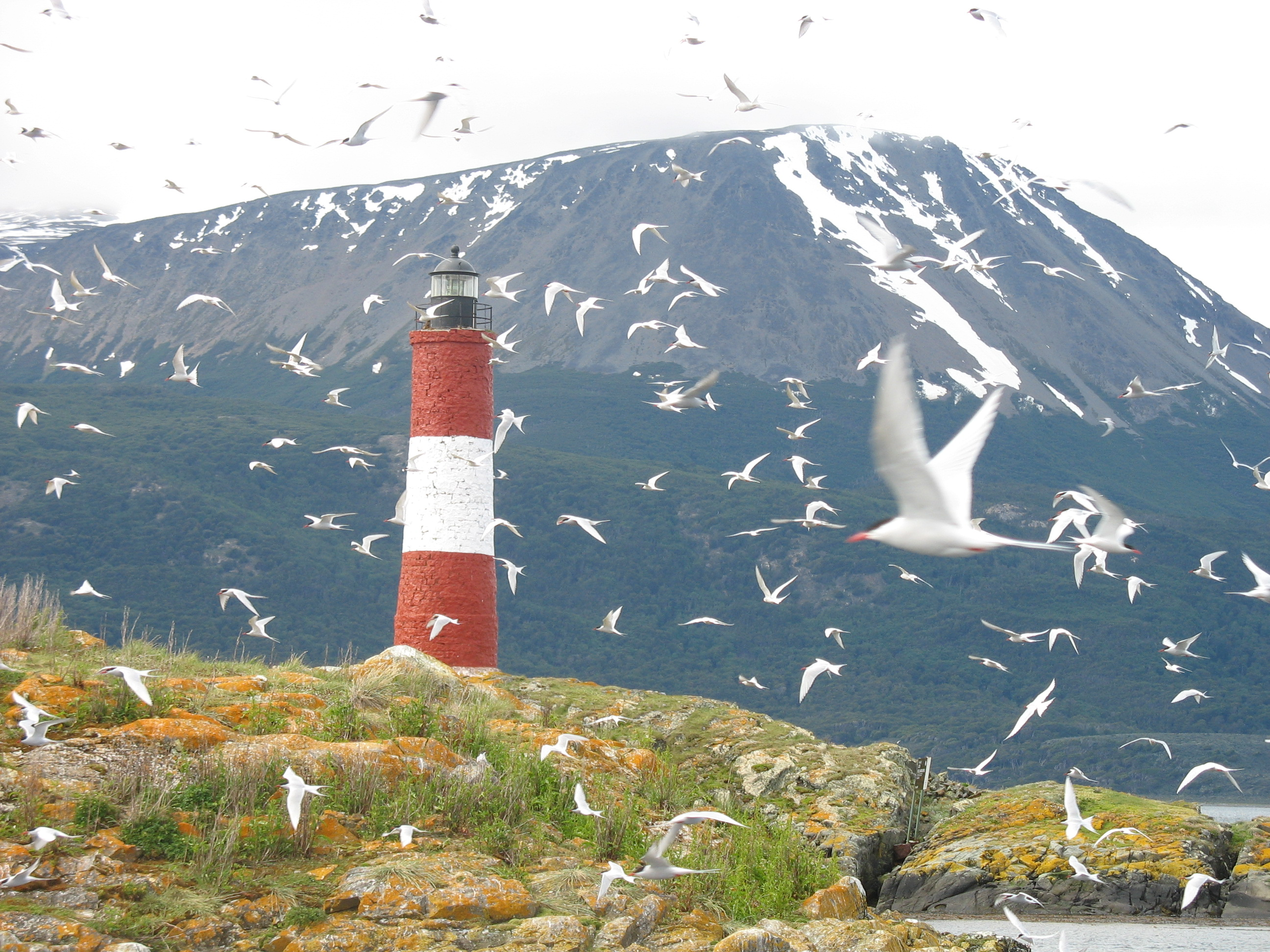 Patagonia, south of Argentina: in island, with lighthouse and sea birds.